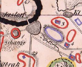 Prehistoric tombs near Jastorf